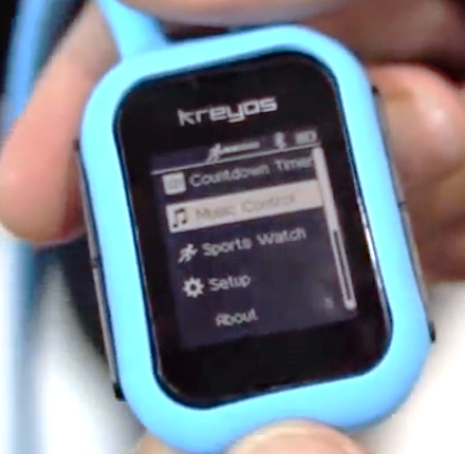 The Kreyos Meteor smartwatch in light blue lanyard.